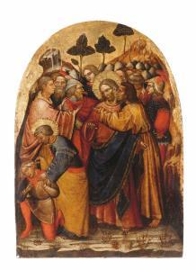 Master Of The Giovanelli Madonna - La Cattura Di Cristo Tempera E Oro Su Tavola